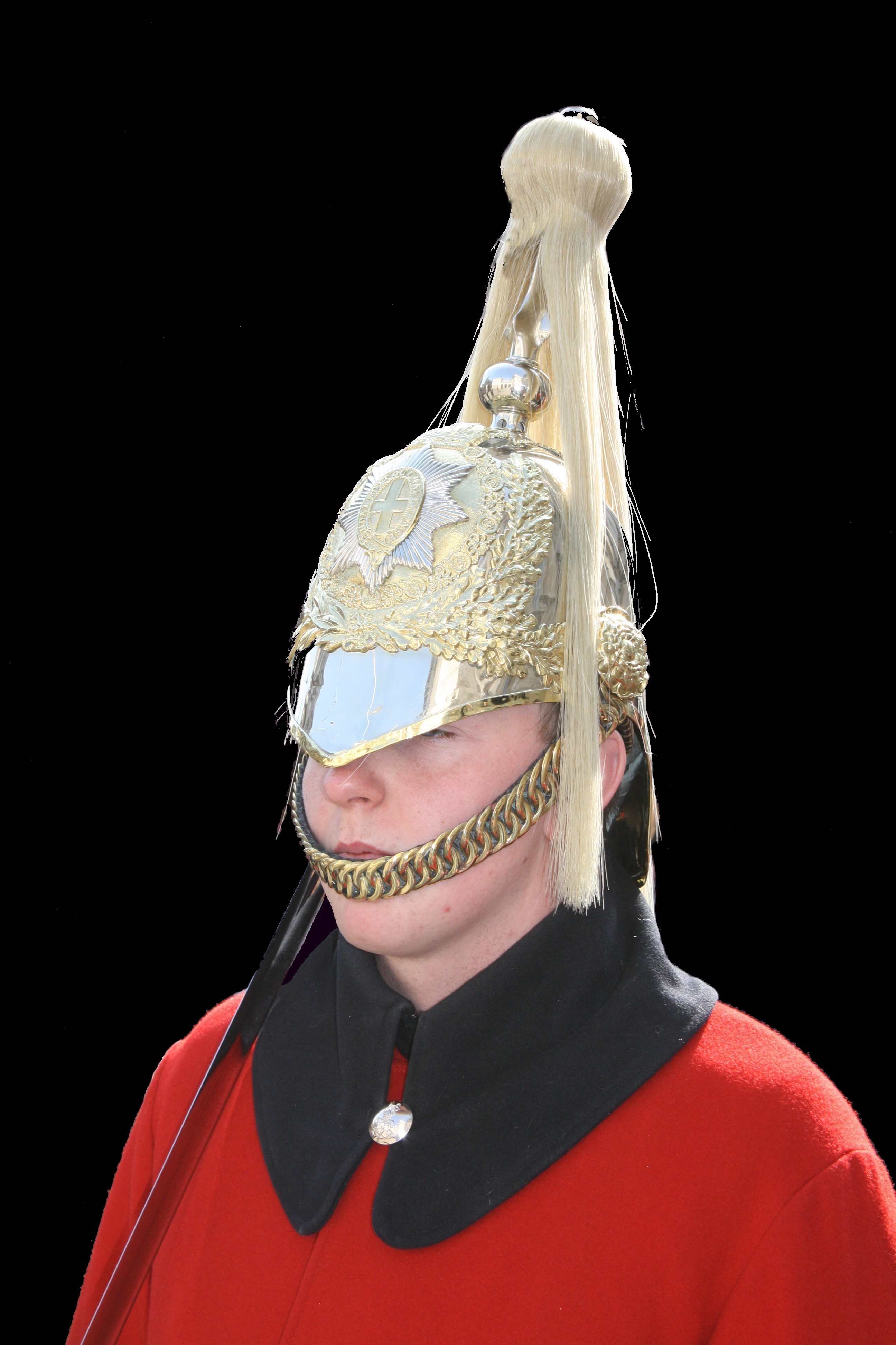 A soldier of the Life Guards in Whitehall, London